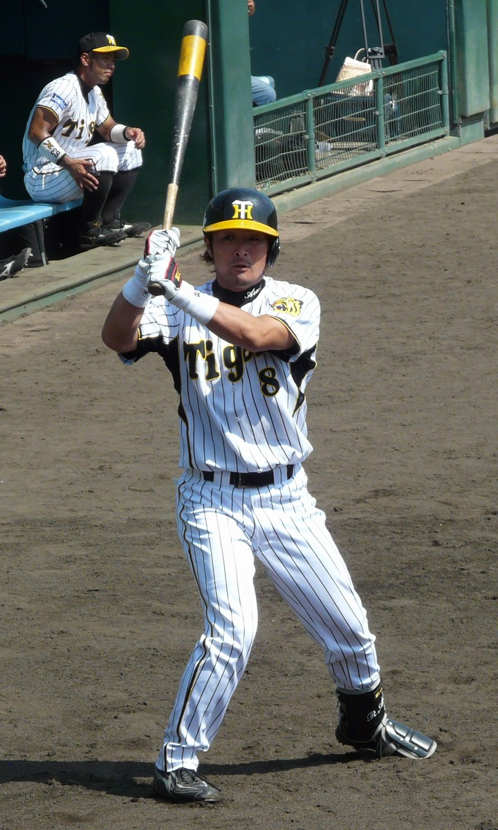 Ryo-Asai